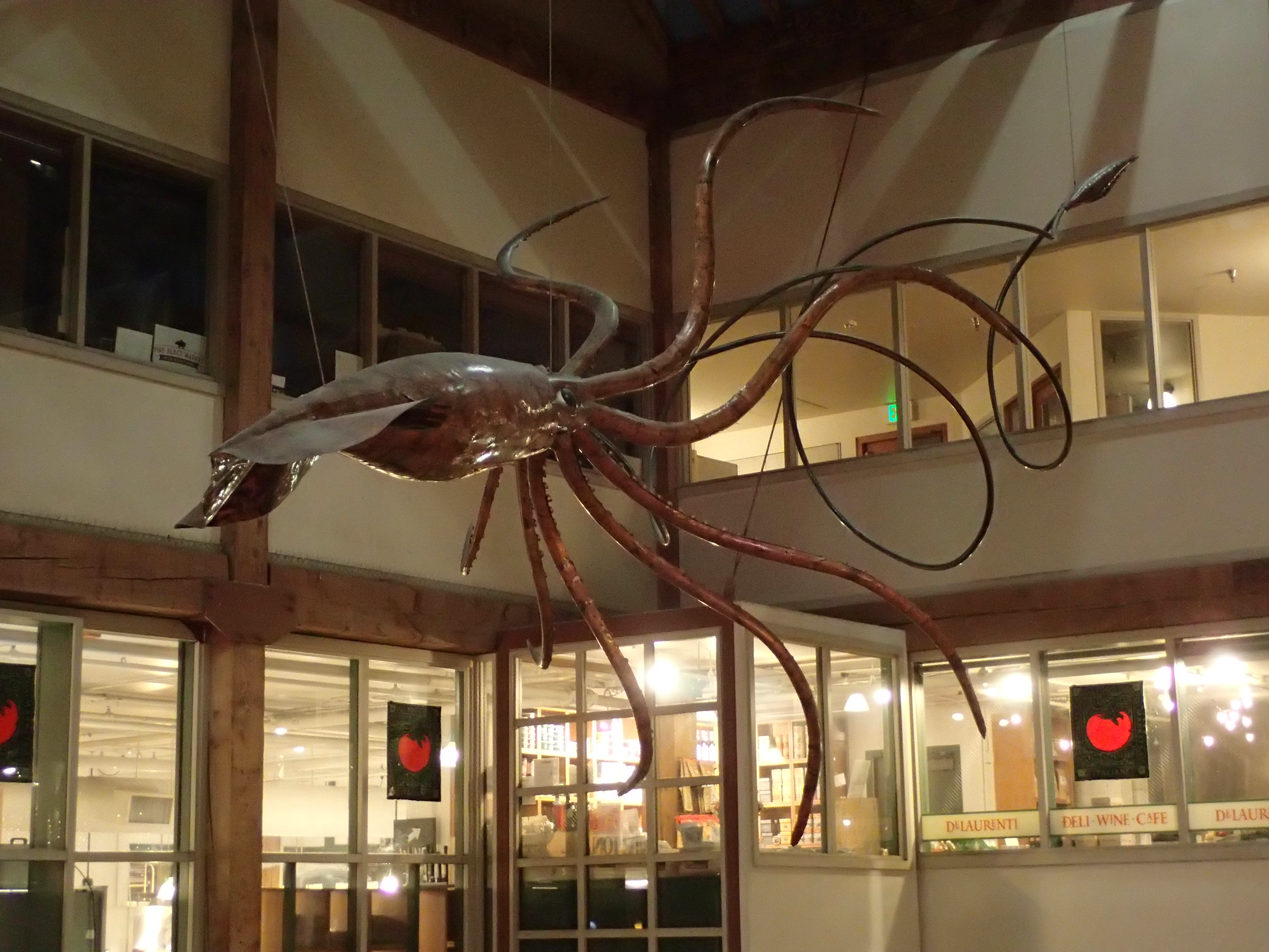 Seattle, WA